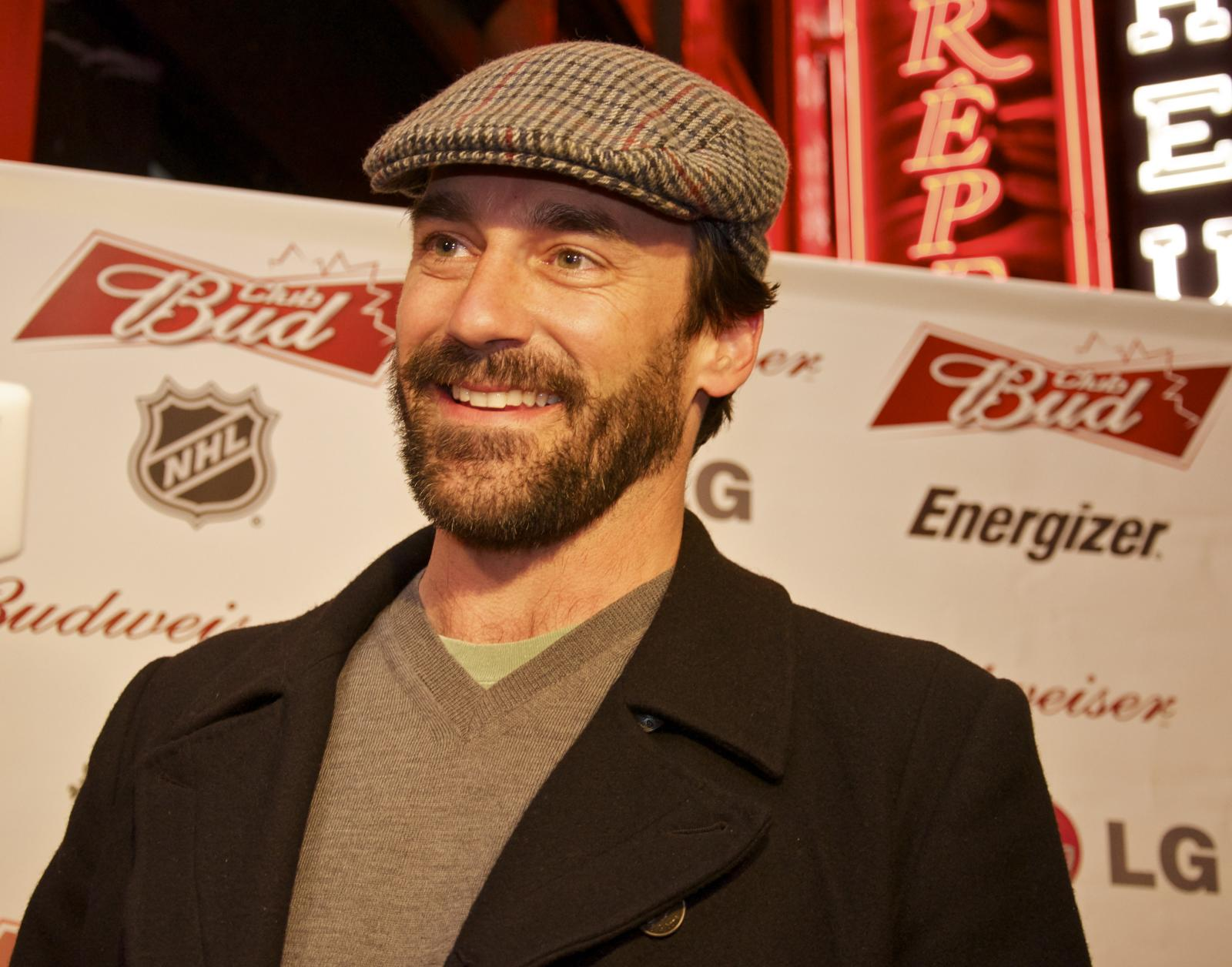 Actor Jon Hamm on the red carpet at the 2010 Vancouver Olympics